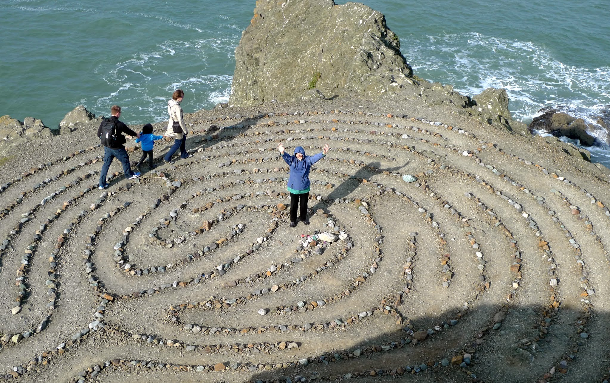 The Hidden Labyrinth at Lands End, Eagle's Point